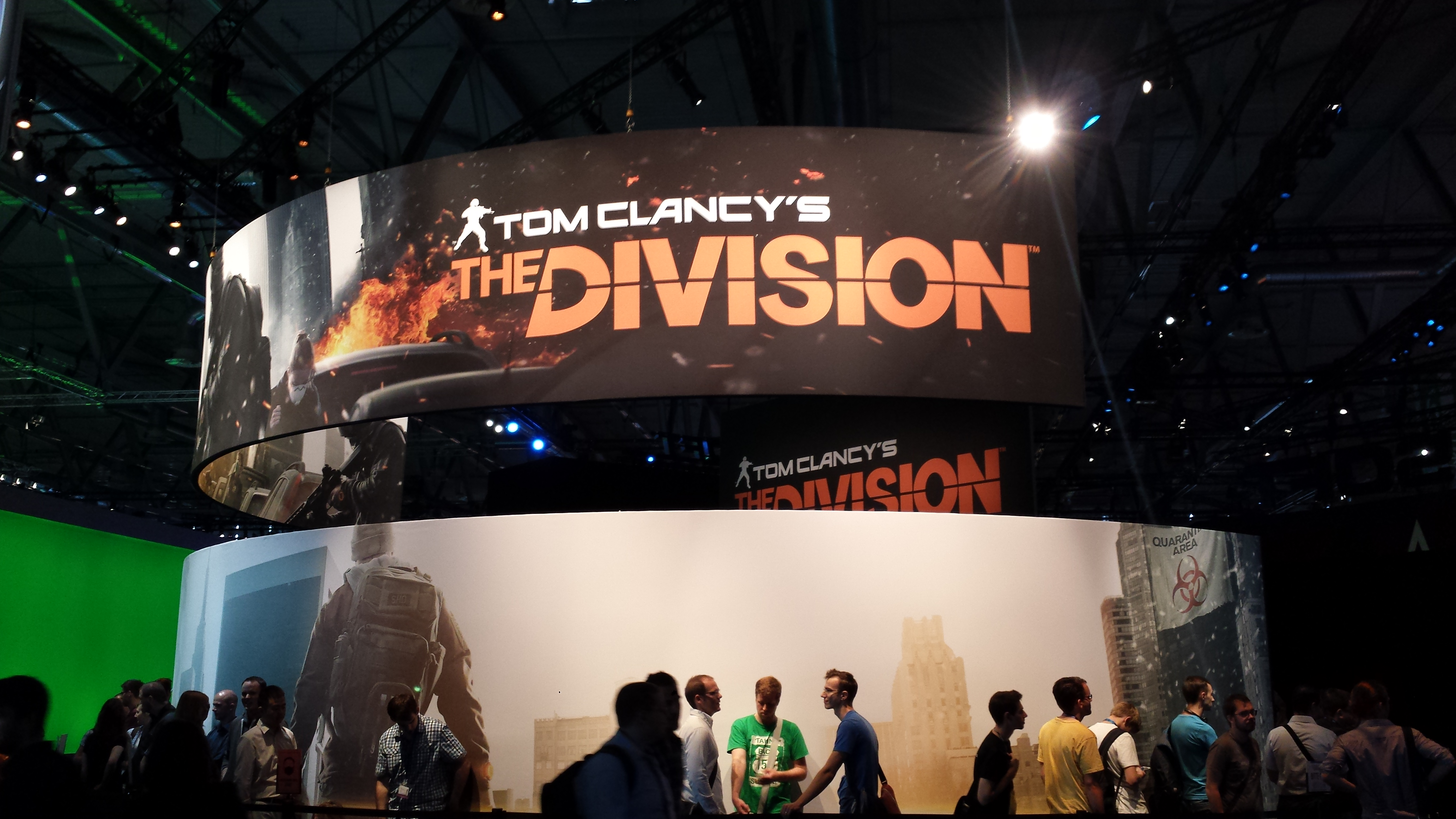 Tom Clancy's The Division booth during Gamescom 2013